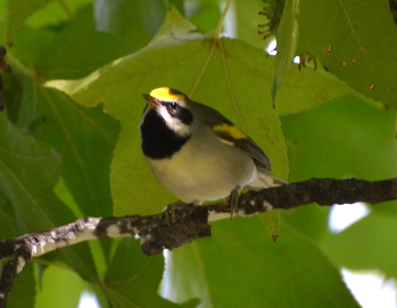 Golden-winged Warbler Vermivora chrysoptera, Tower Grove Park, St. Louis, Missouri.